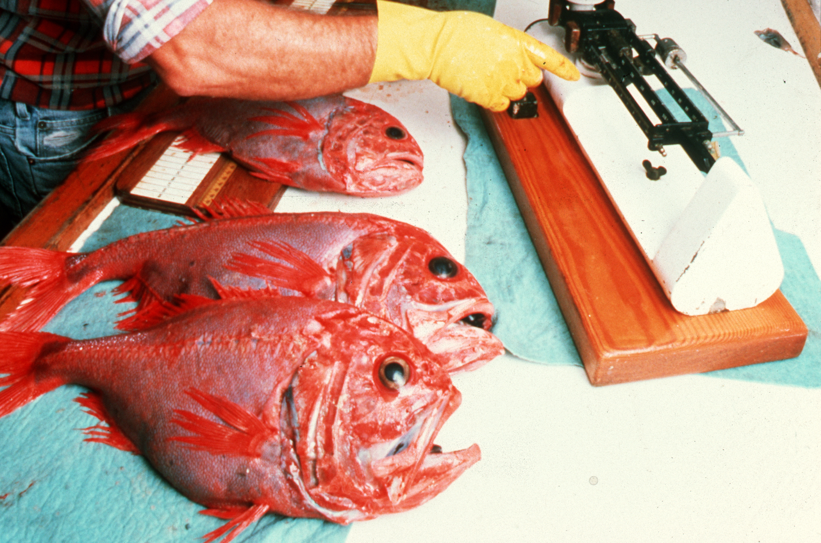 Prized for its taste, the Orange Roughy fish can live as long as eighty years. Researchers are currently studying the Orange Roughy to ensure that there are enough young fish to maintain the population as fishing of the species increases.